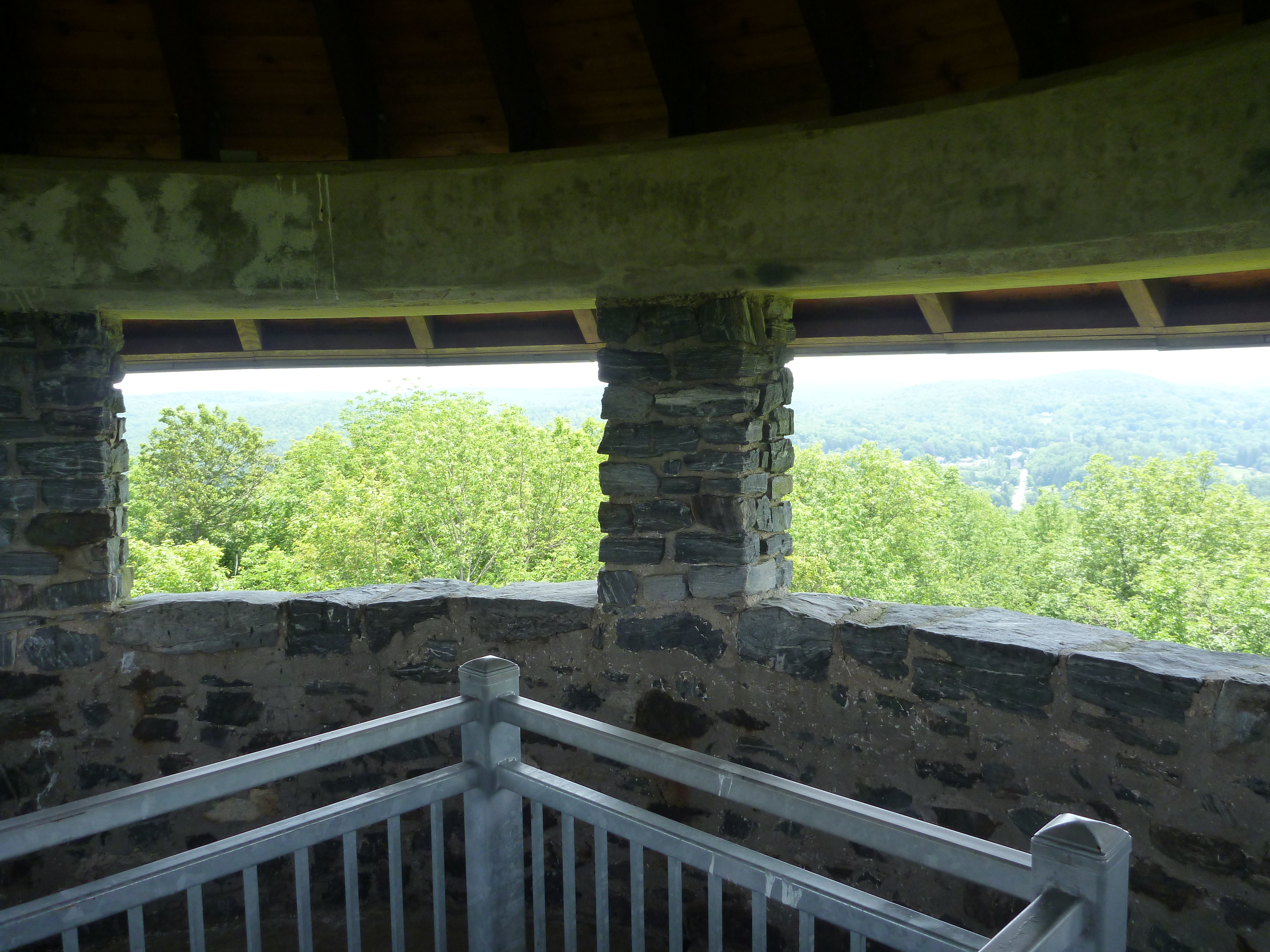 Haystack Mountain Tower, 43 North St. Norfolk